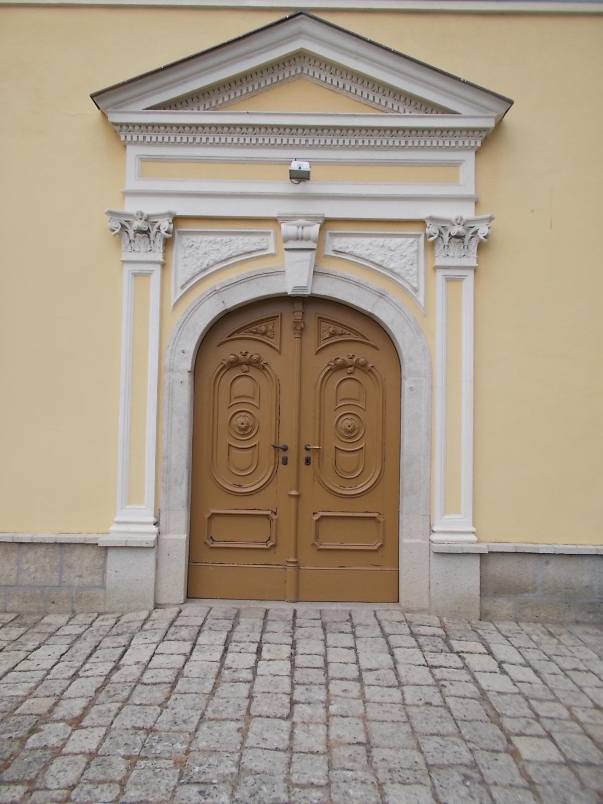 Lutheran Great Church, Baroque origin, 1784-1786. Reconstructed in eclectic neo-baroque style between 1850-1860, 1885-1886 and 1936. - Luther Square, Nyíregyháza, Szabolcs-Szatmár-Bereg County, Hungary.